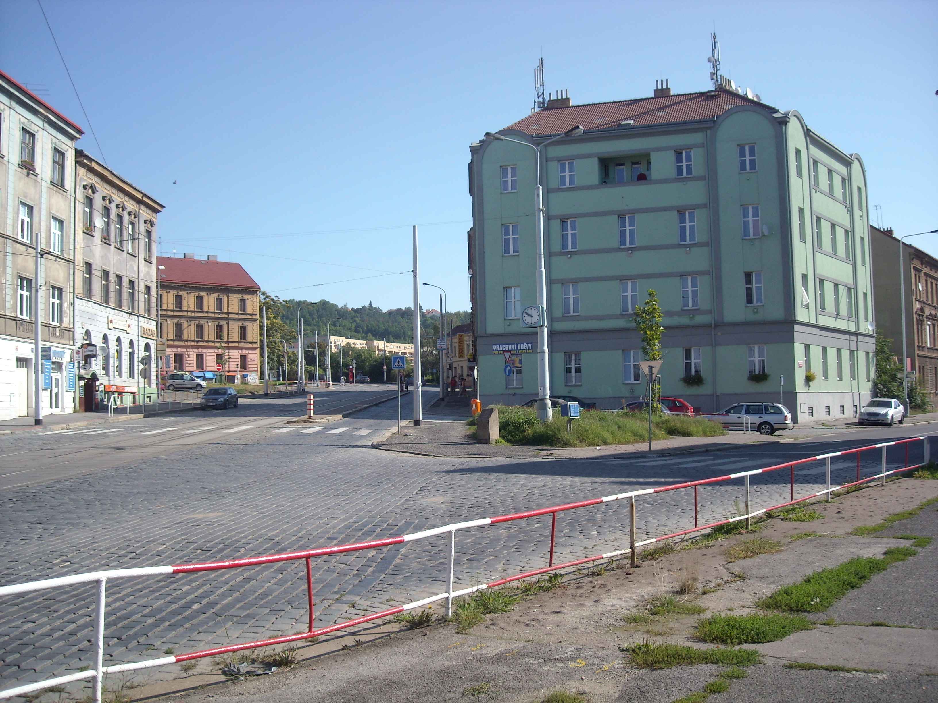 U kříže (crossroads Zenklova Prosecká). Libeň, Praha, Czech republic